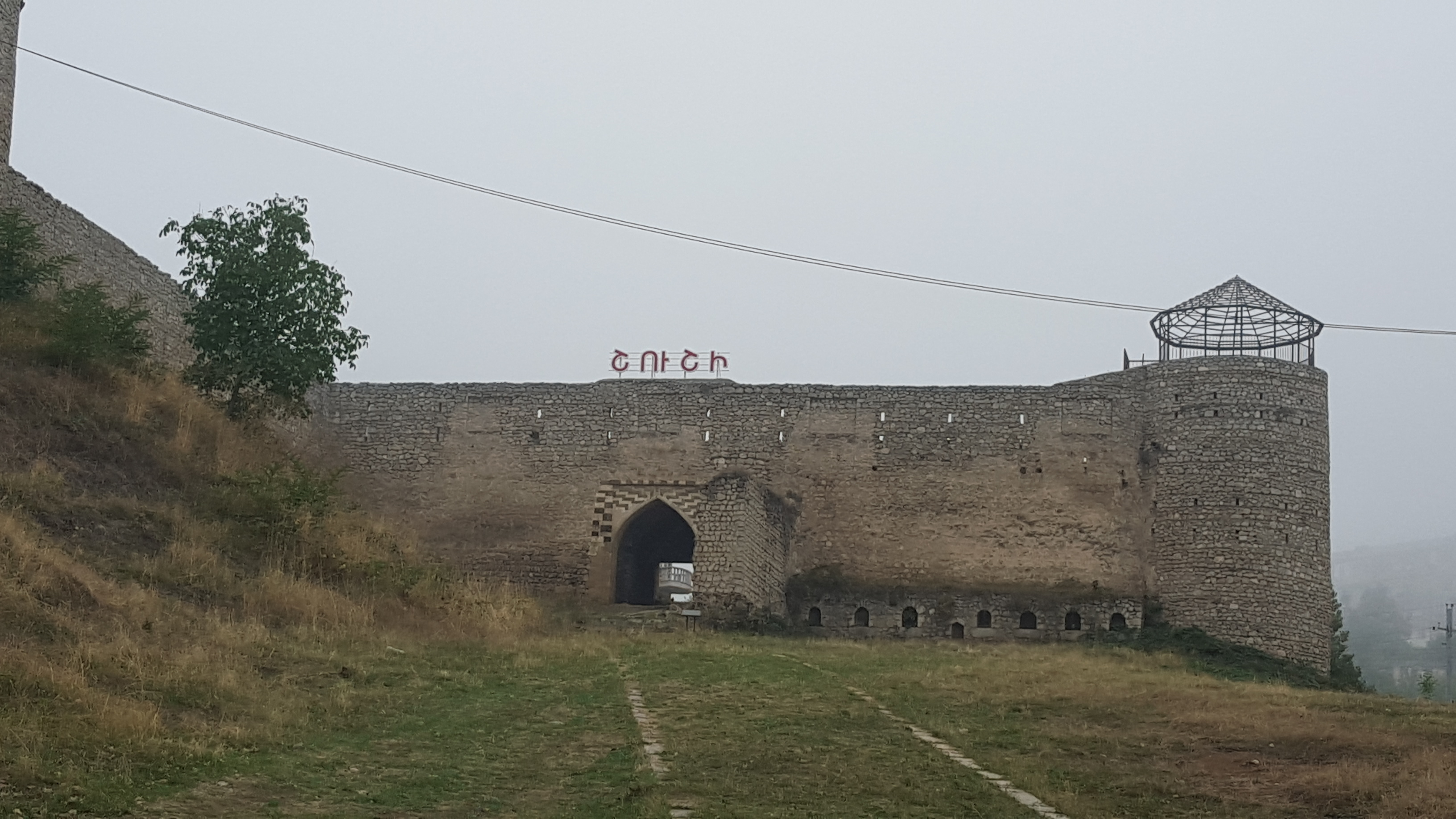 Shusha fortress